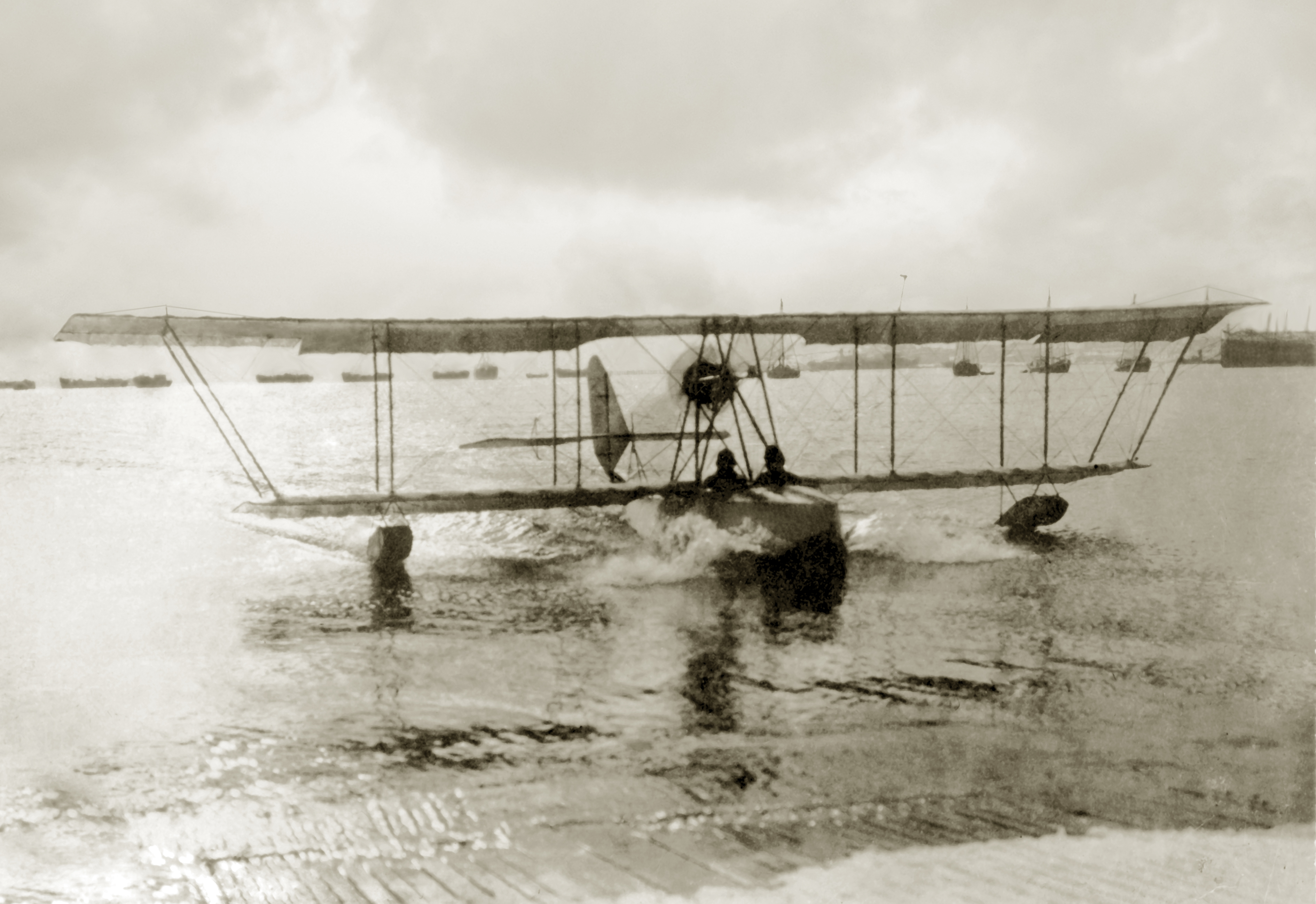 Naval Aviation Officer's School in Baku.